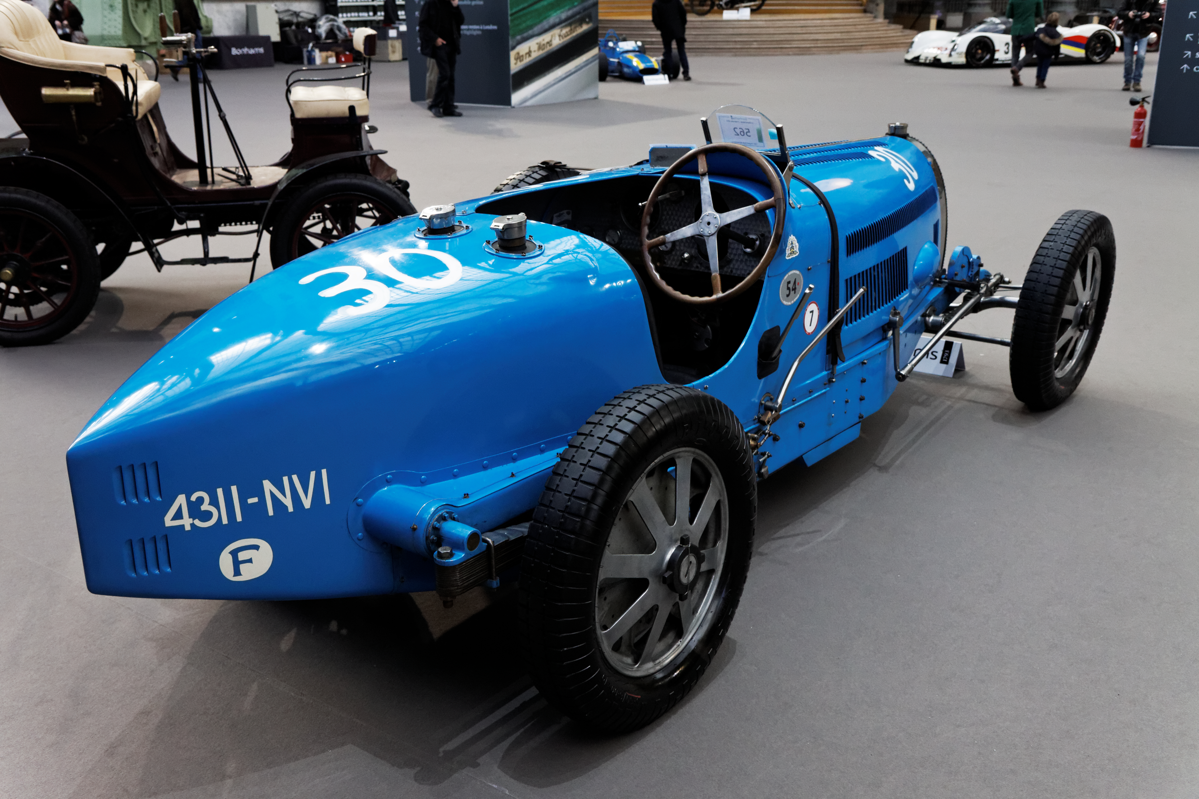 Une Bugatti type 54 grand Prix de 1931.